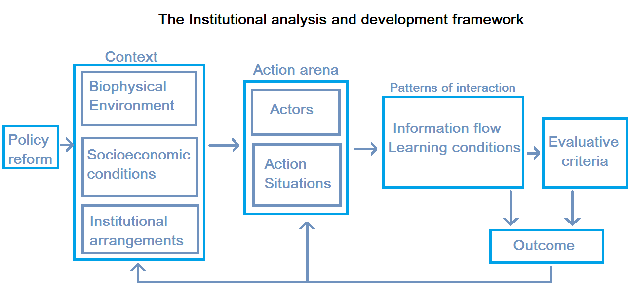 Institutional analysis and development framework diagram